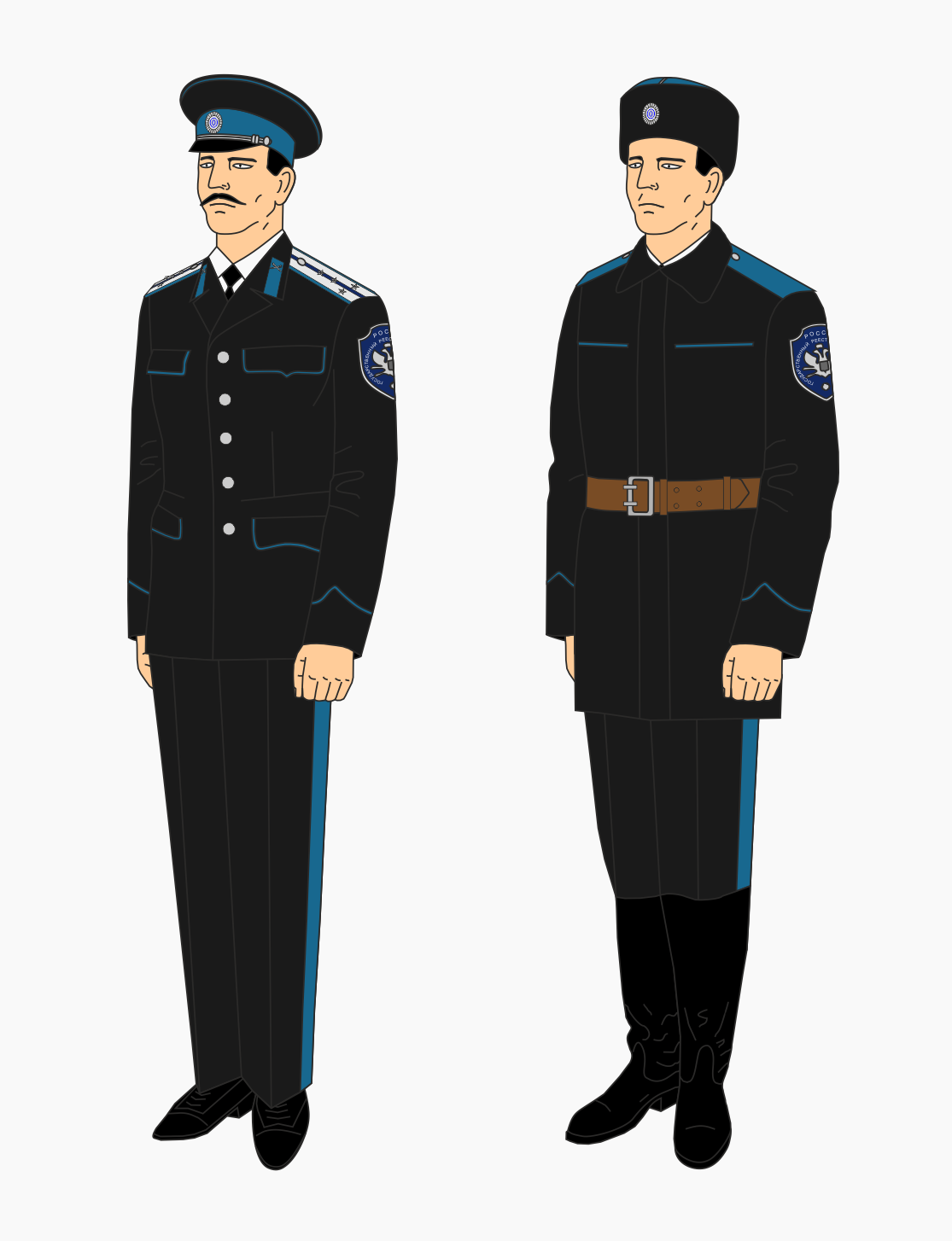 Терское казачье войско (повседневная форма казаков)